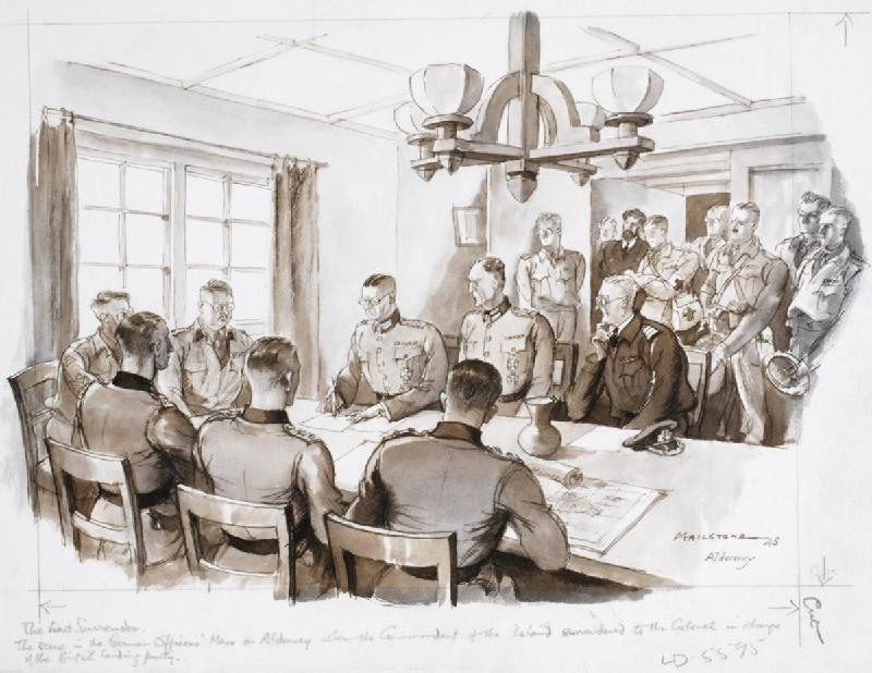 The Surrender - the scene in the German Officers' Mess on Alderney May 1945, when the Commandant of the island surrendered to the Colonel in charge of the British landing party image: Five German officers in uniform sit around a table within the interior of an Officers' Mess. One of the German officers signs a document on the table in front of him, watched by a British naval officer who is sitting on the same side of the table, two British officers sitting at the end of the table and a crowd of British officers gathering at the door behind them.